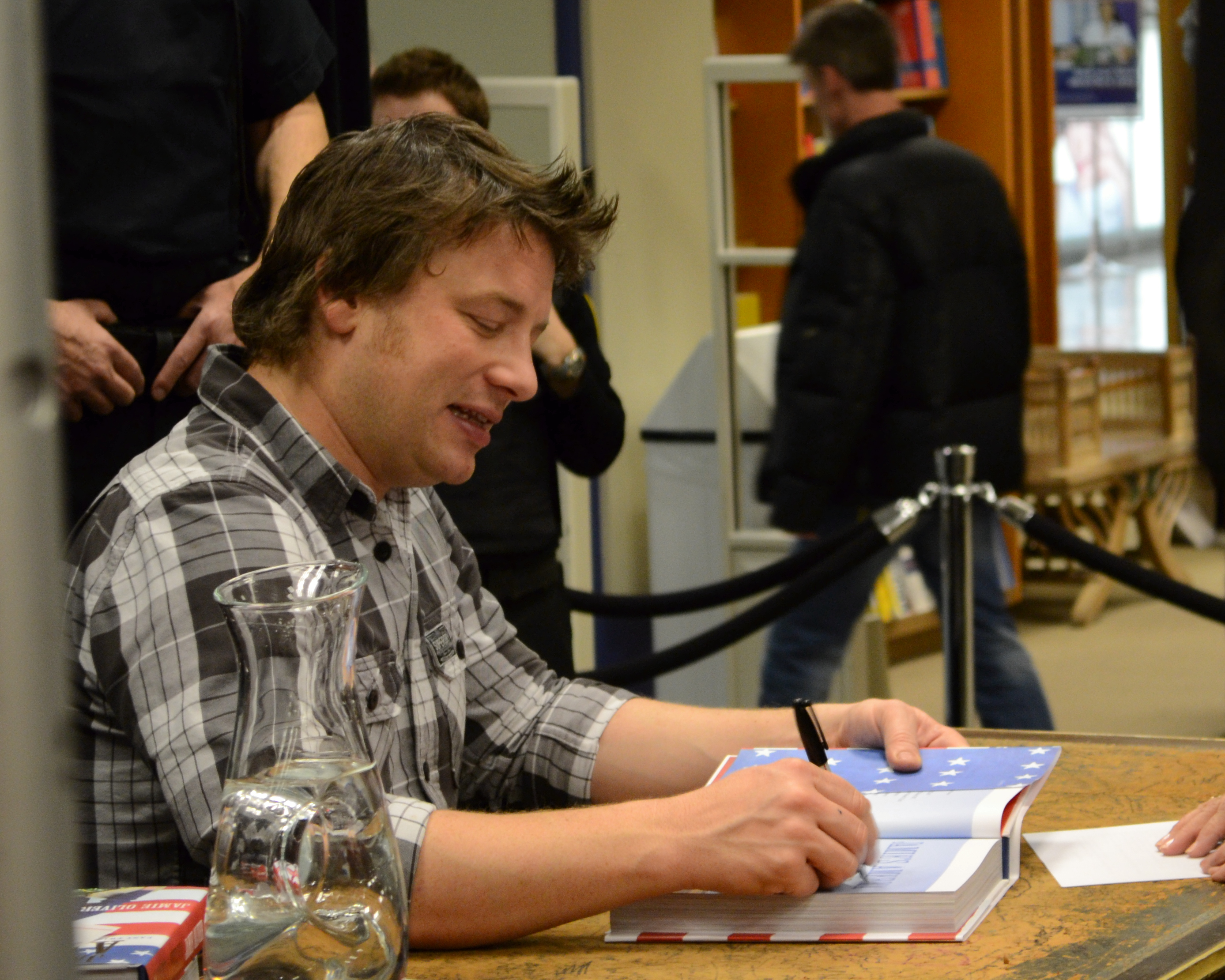 Cropped version of File:JamieOliverToronto3.jpg.